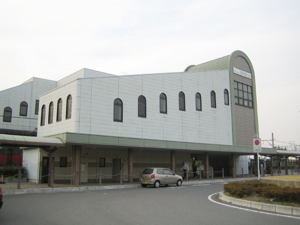 Toyoake Station (豊明駅), in Toyoake, Aichi, Japan